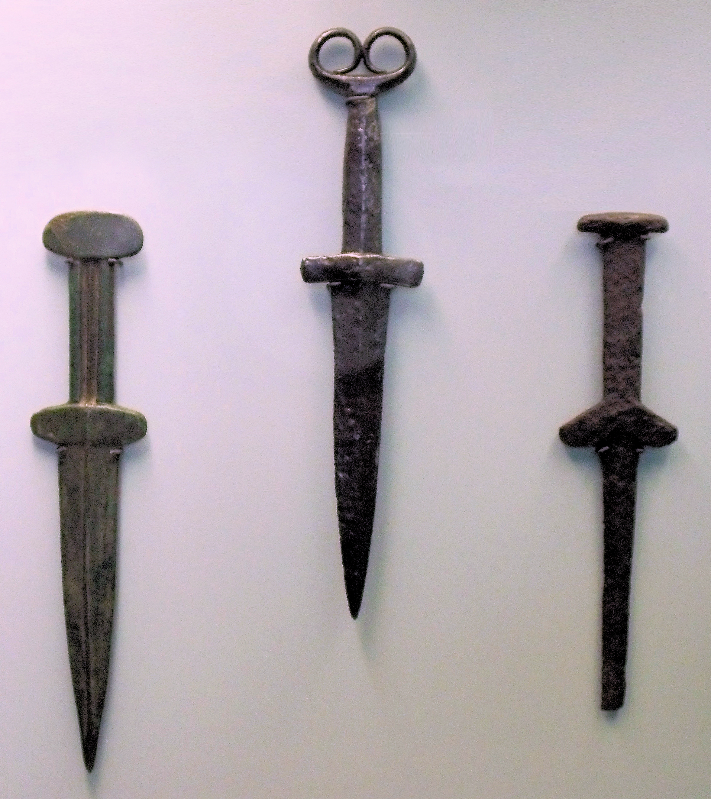 Museum für Vor- und Frühgeschichte (Museum of prehistory and early history), Berlin